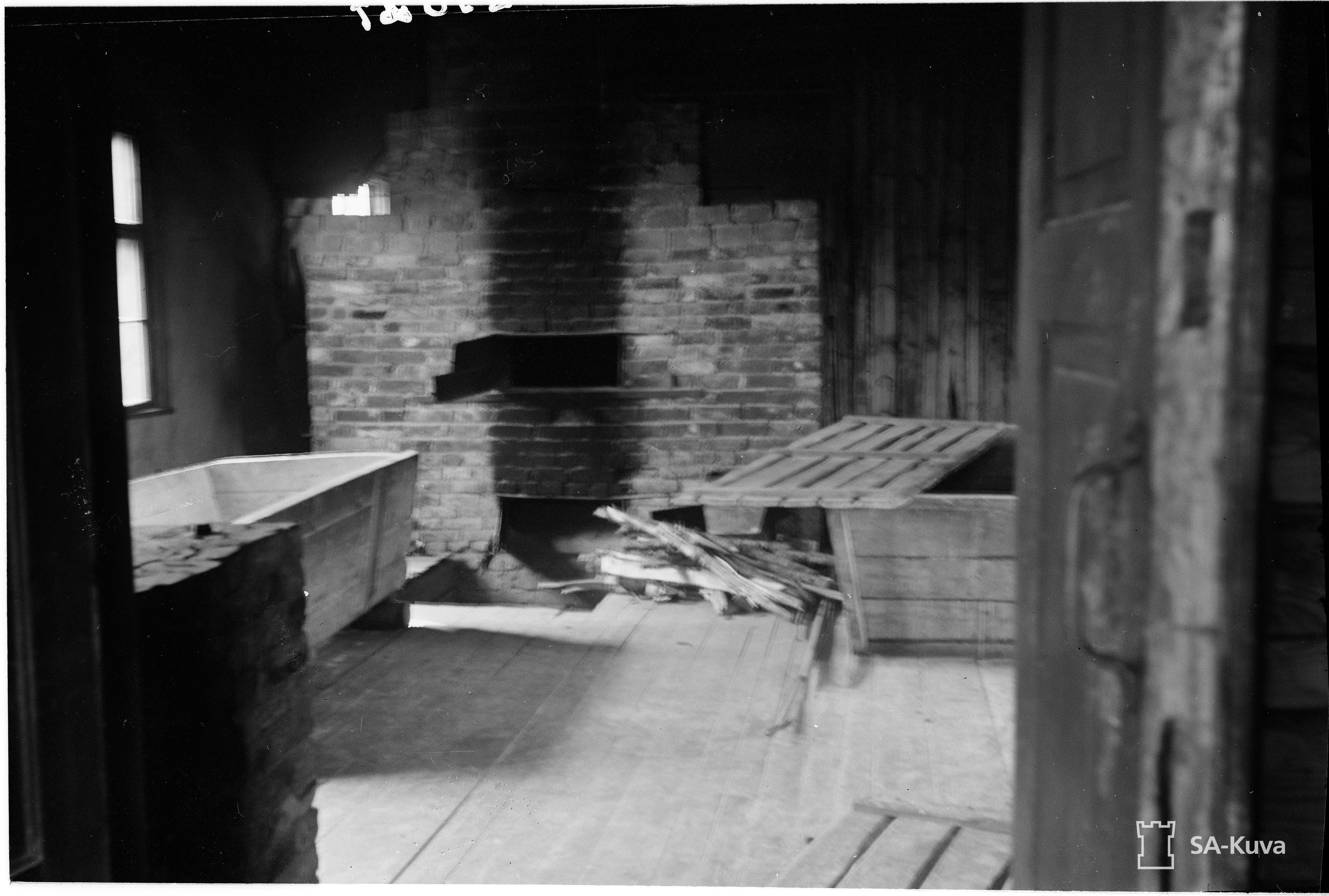 Leppäsyrjän pikkukirkko, jonka venäläiset ovat muuttaneet leivintuvaksi.